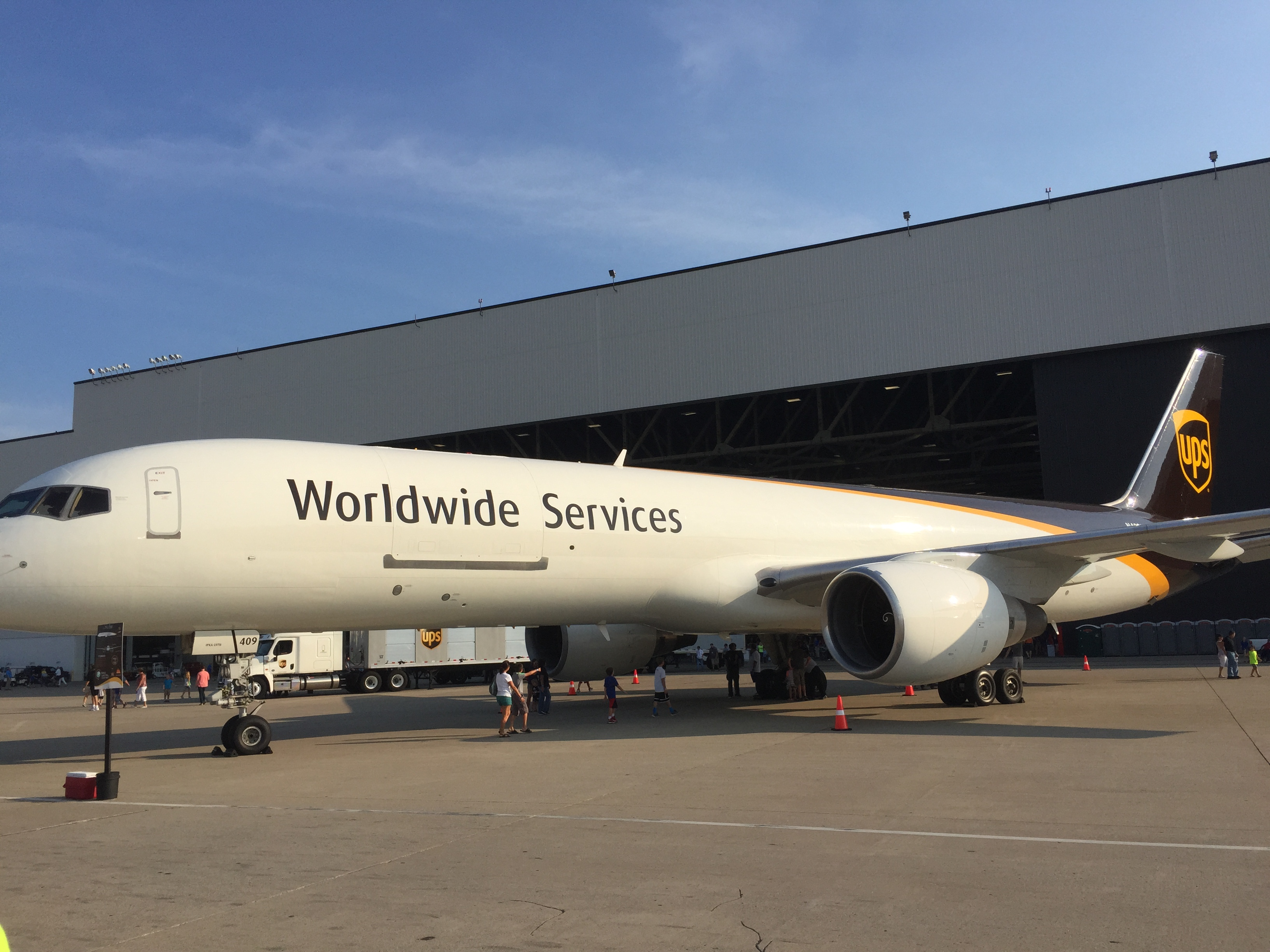 A Boeing 757-200PF painted in the 2014 updated livery at Louisville International Airport